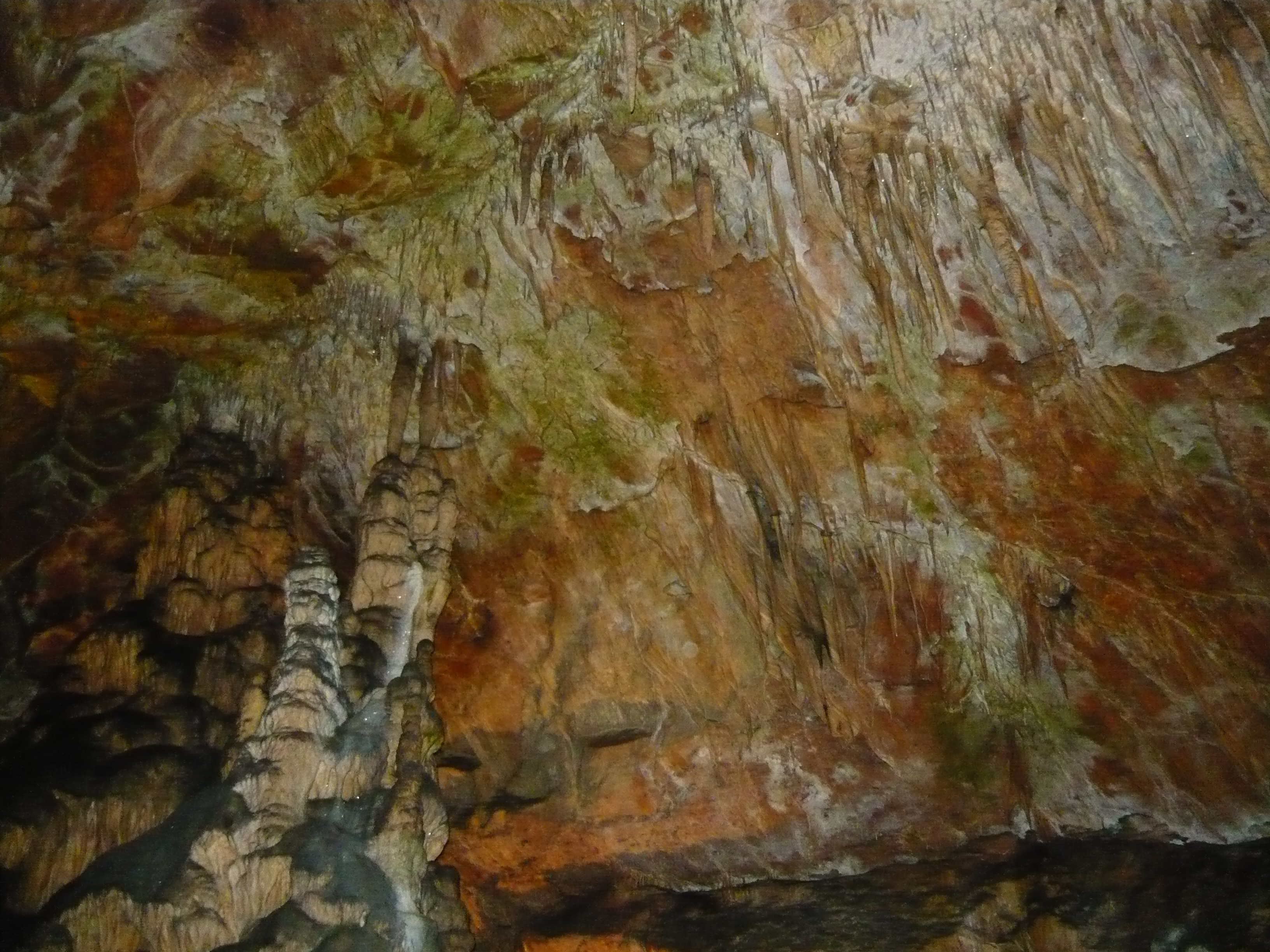 Saeva dupka cave